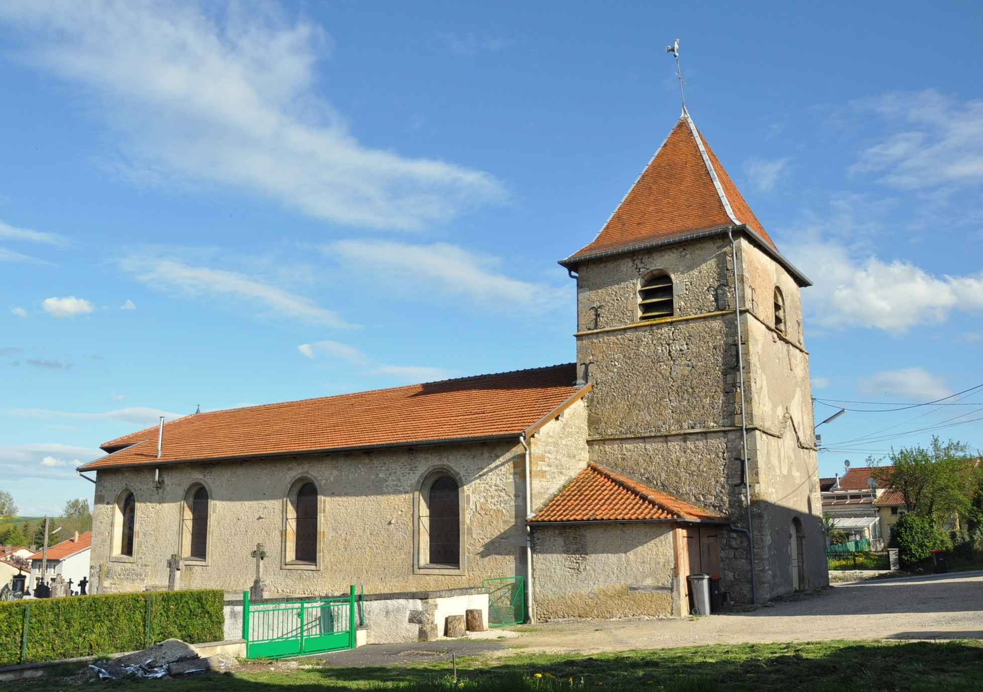 Church of St. Avitus in Autrécourt-sur-Aire (canton Seuil-d'Argonne, Meuse department, Lorraine region, France).